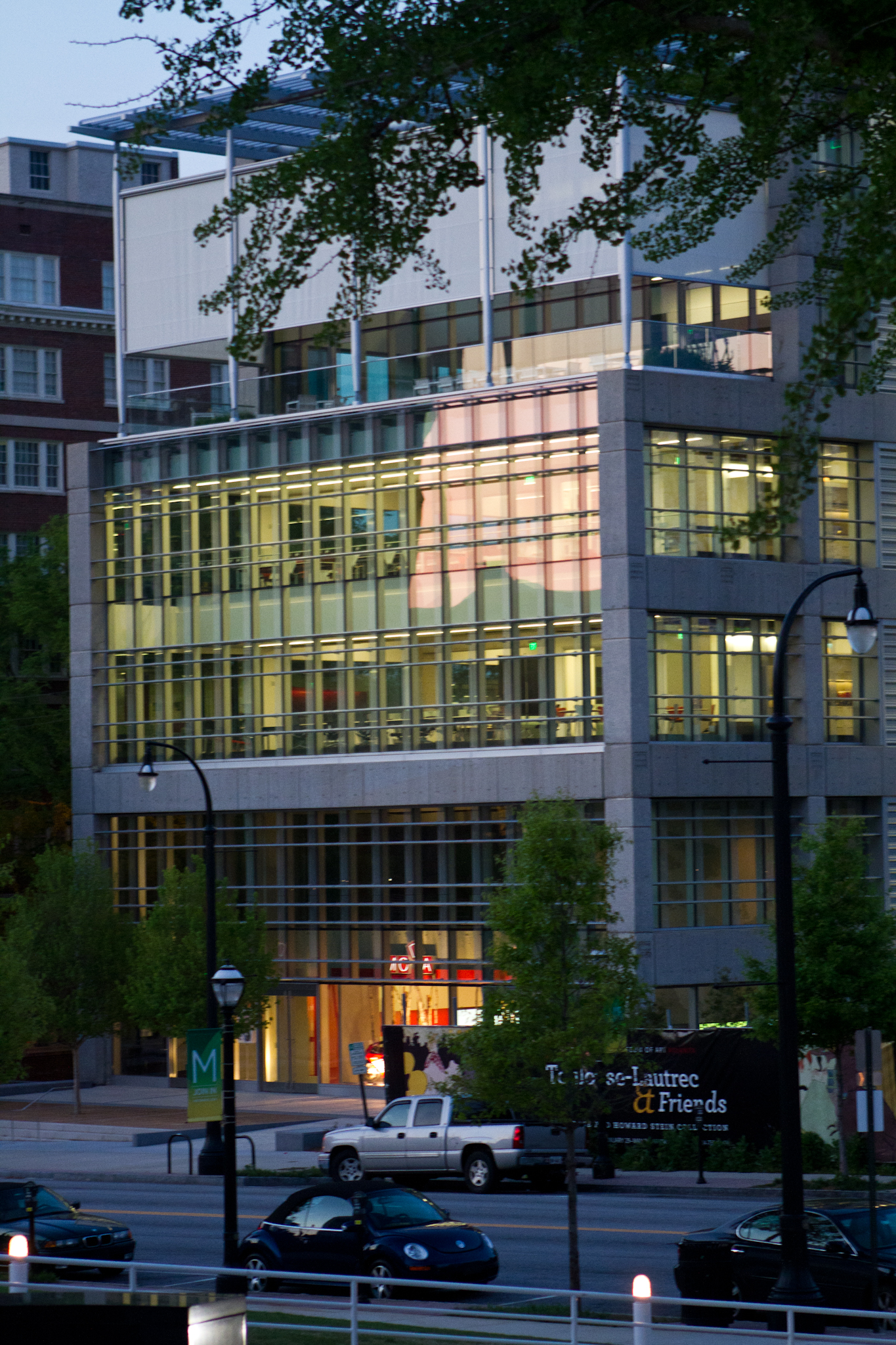 Museum of Design Atlanta (MODA) — in Midtown Atlanta, across from the High Museum, in Georgia.